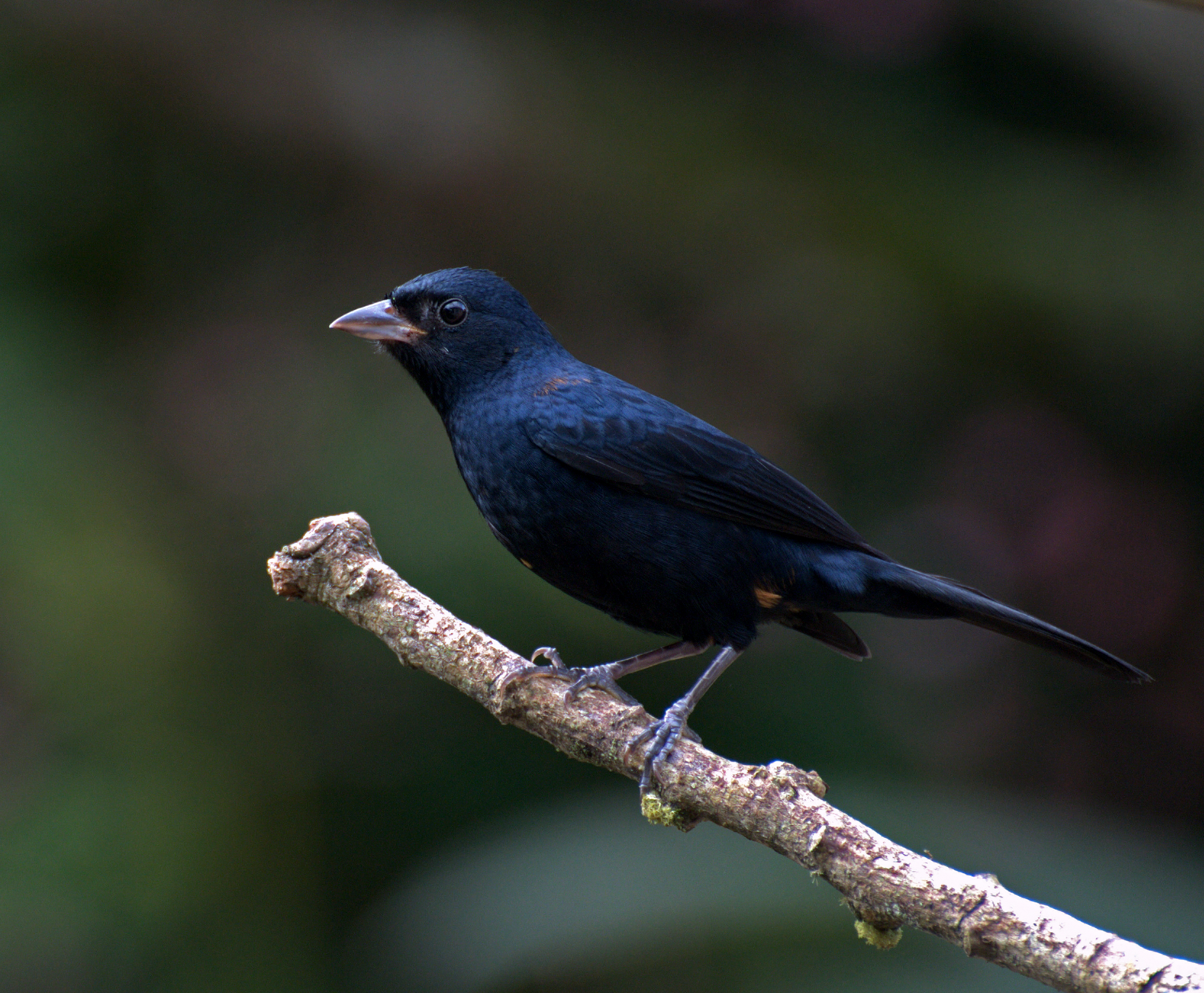 A male Tachyphonus coronatus in Vale do Ribeira, São Paulo, Registro, Brazil.